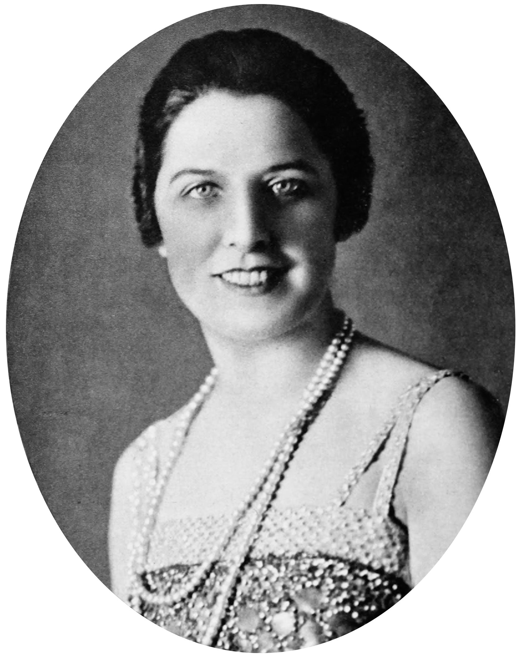 Advertisement in Moving Picture World, Jul 1918